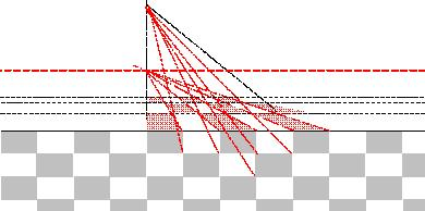 description du principe de l'homologie